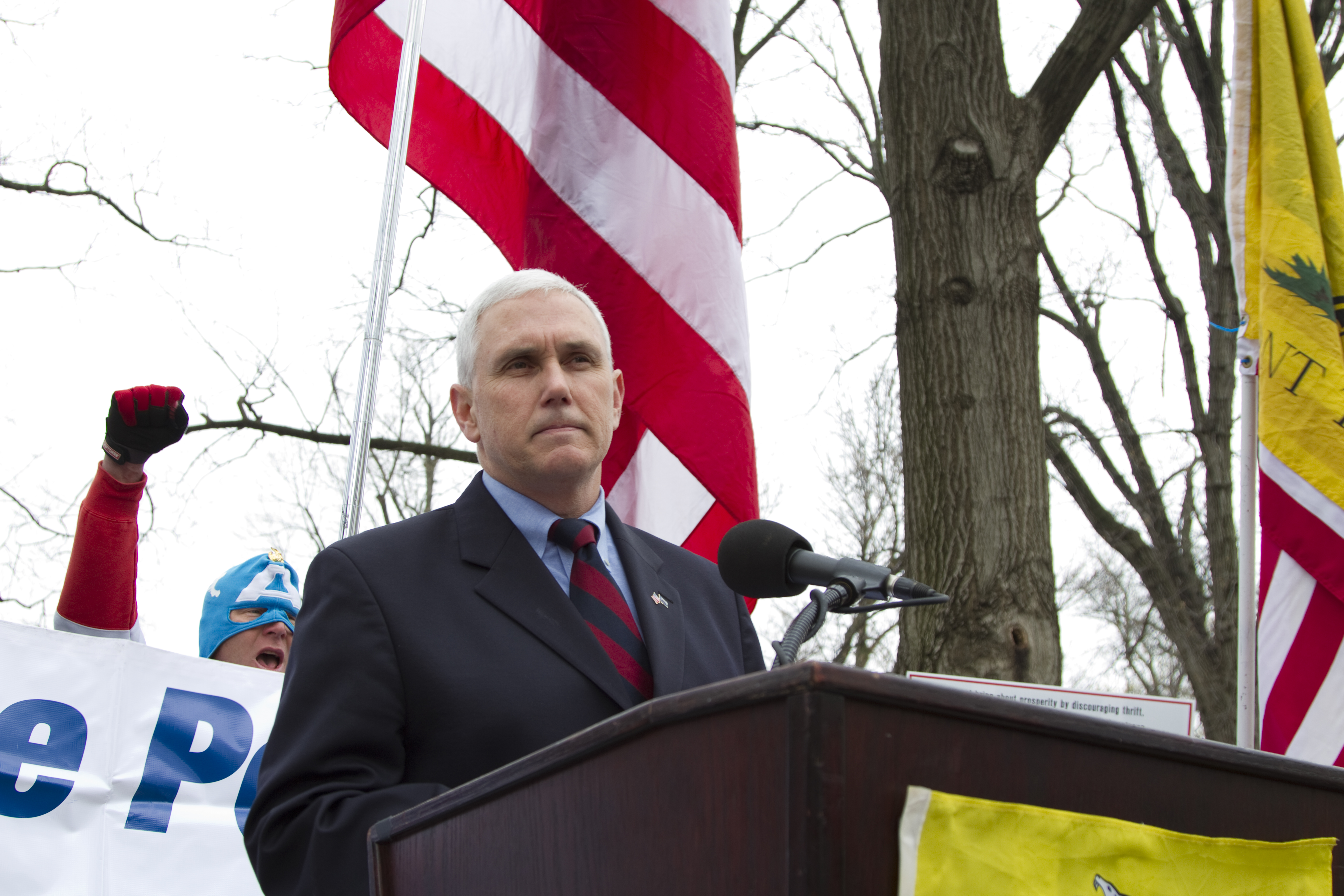 Rep. Mike Pence speaking.